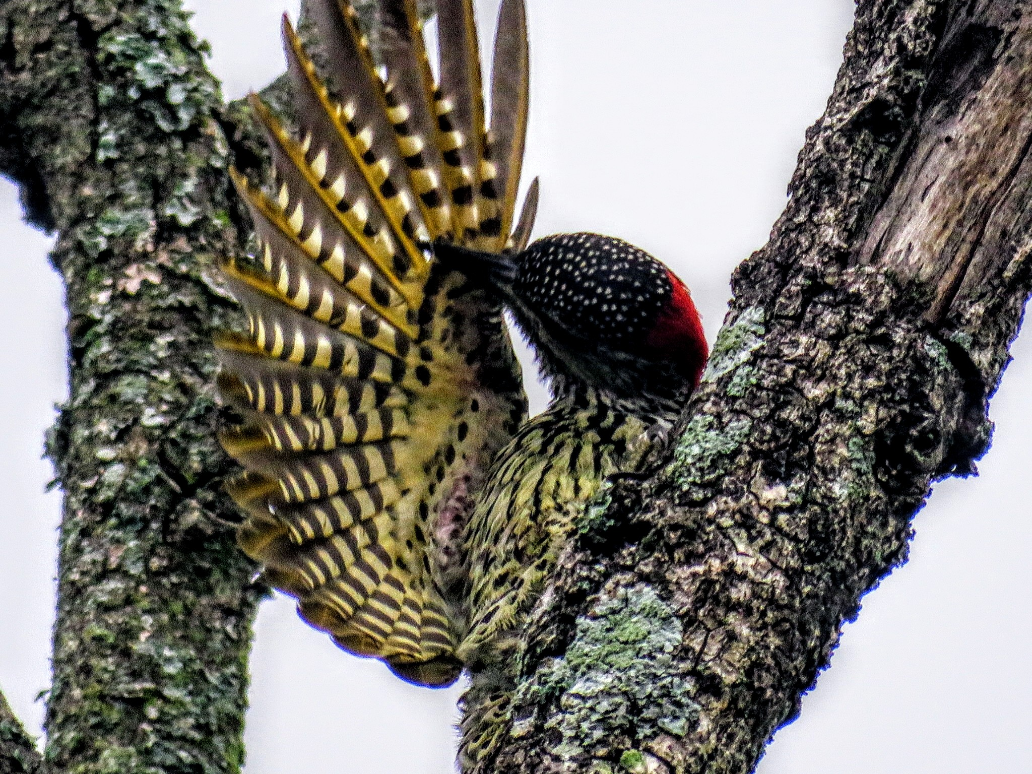 Captured this beautiful photo during my morning routine feeding my garden birds.